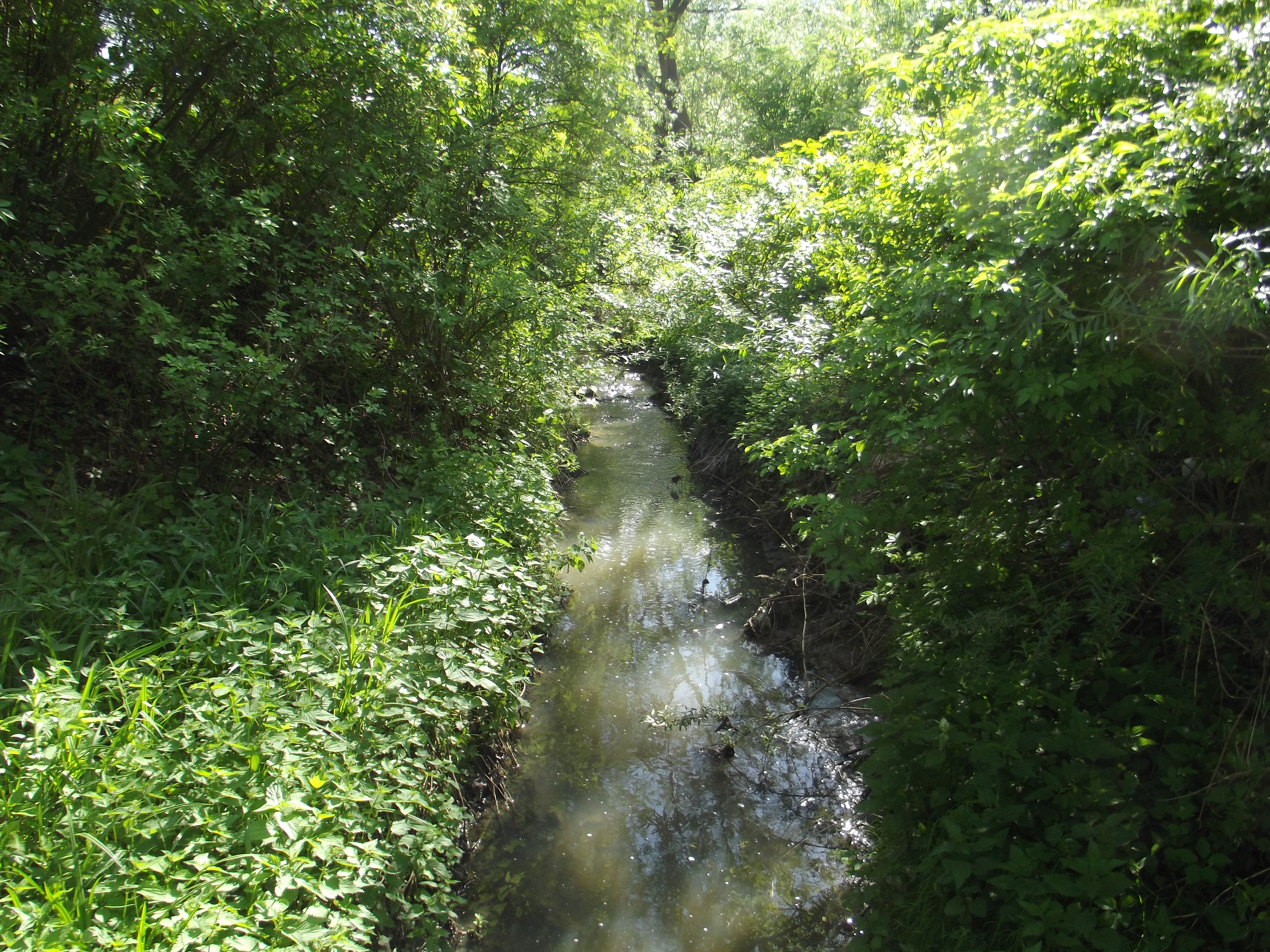 A stream running trough the Olszanica (a part of Kraków)